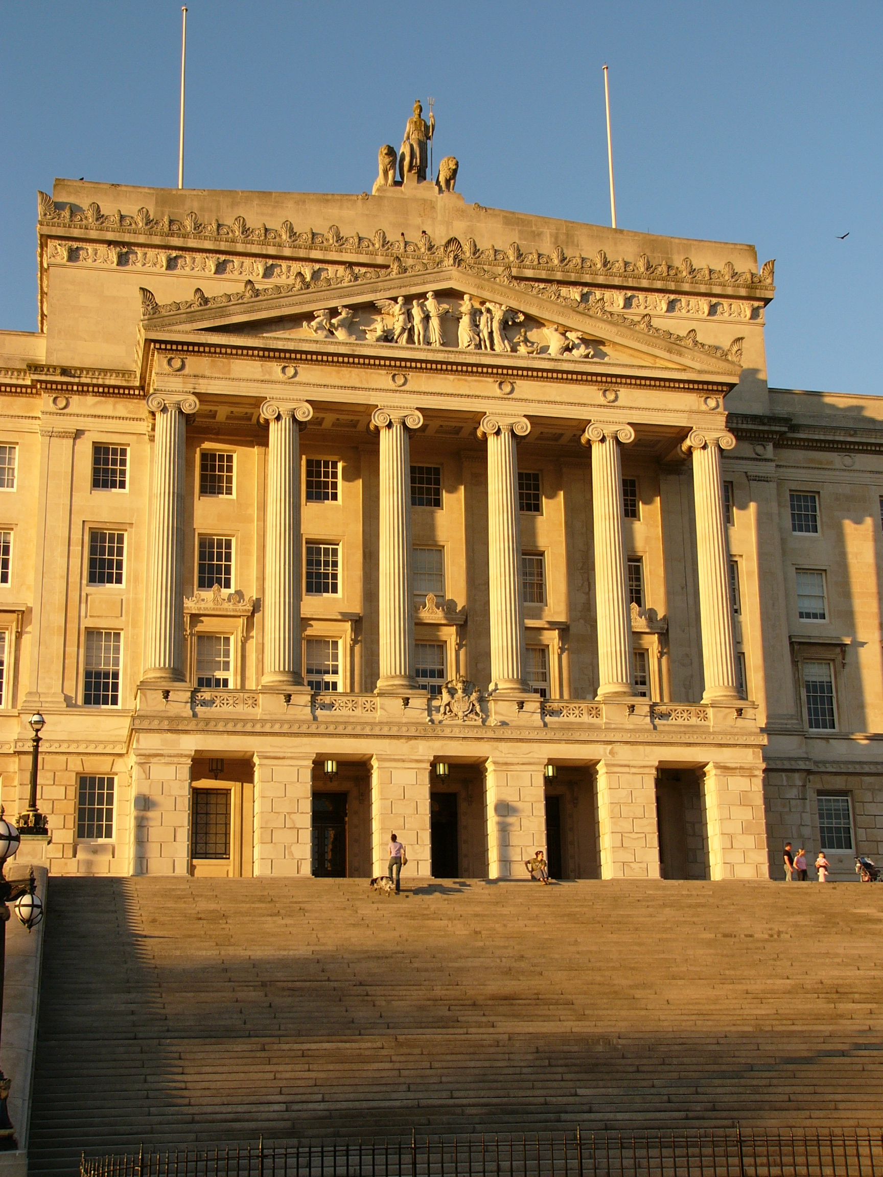 Close up of Stromont